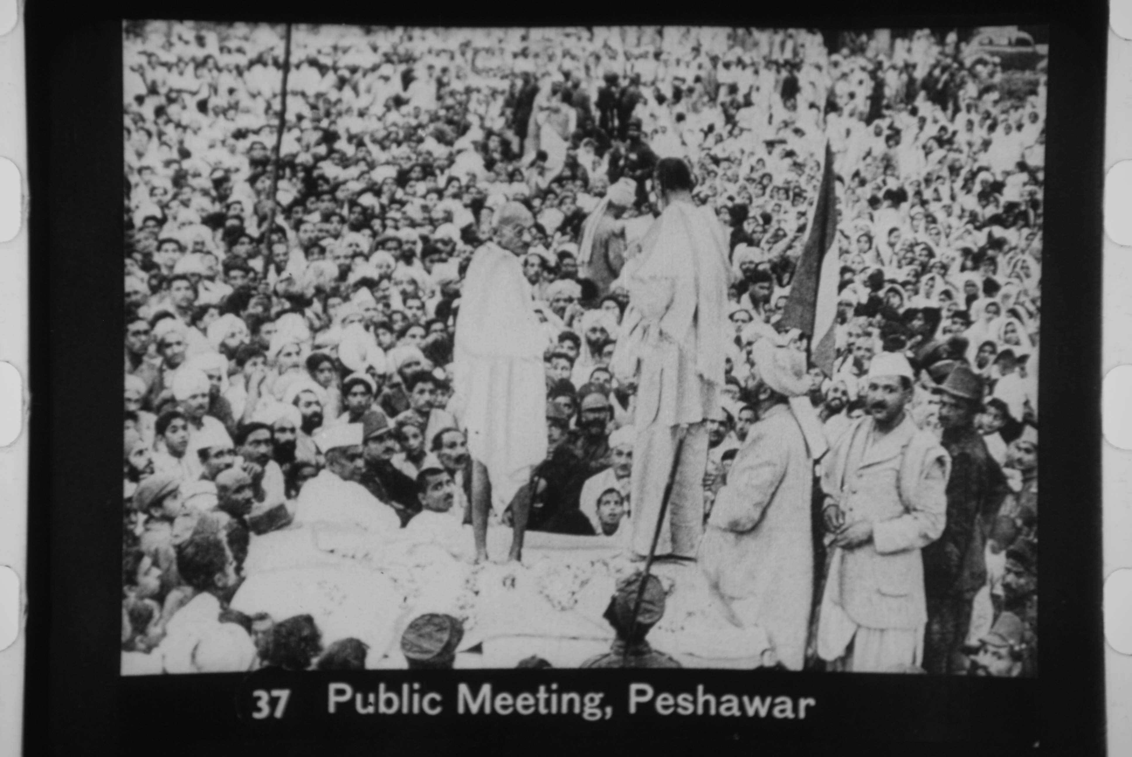 Gandhi at Peshawar meeting with Abdul Ghaffar Khan